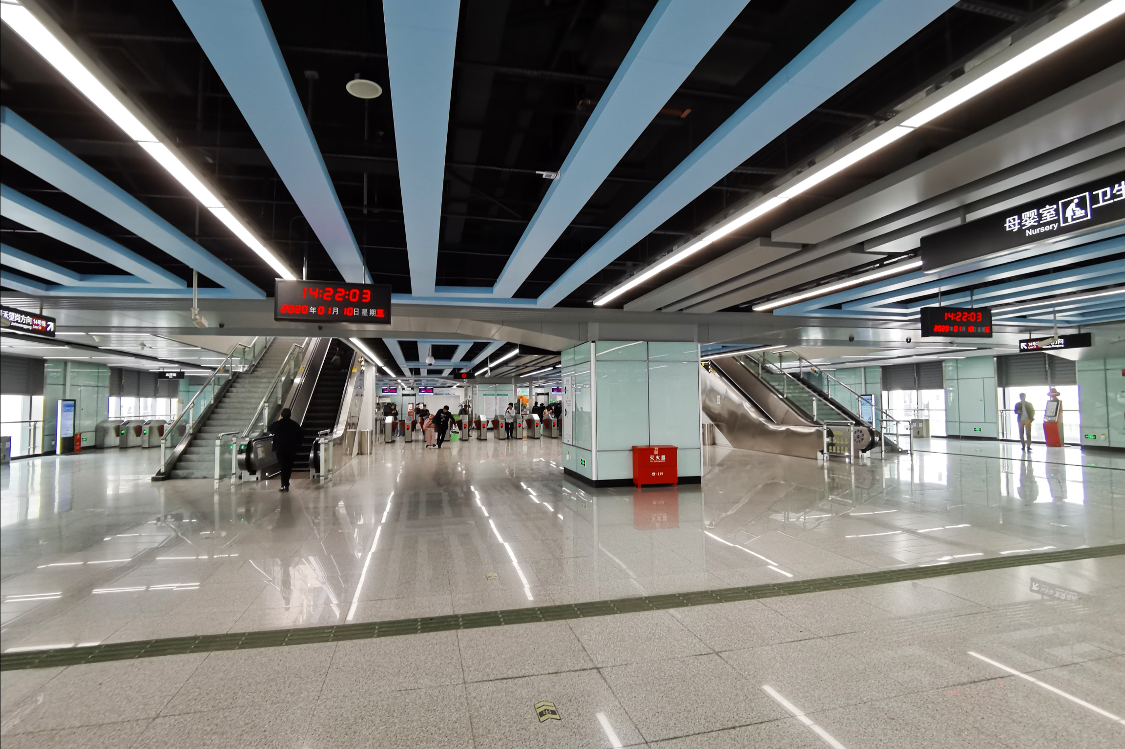 广州地铁钟落潭站